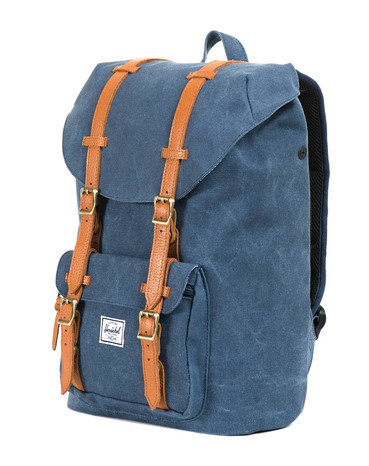 Herschel Supply Co. backpack, 2013. Photographed for